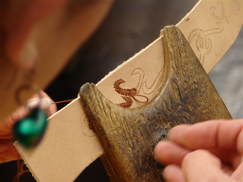 Decorating a leather piece at a workshop at the Museum de Arte Popular, Mexico City